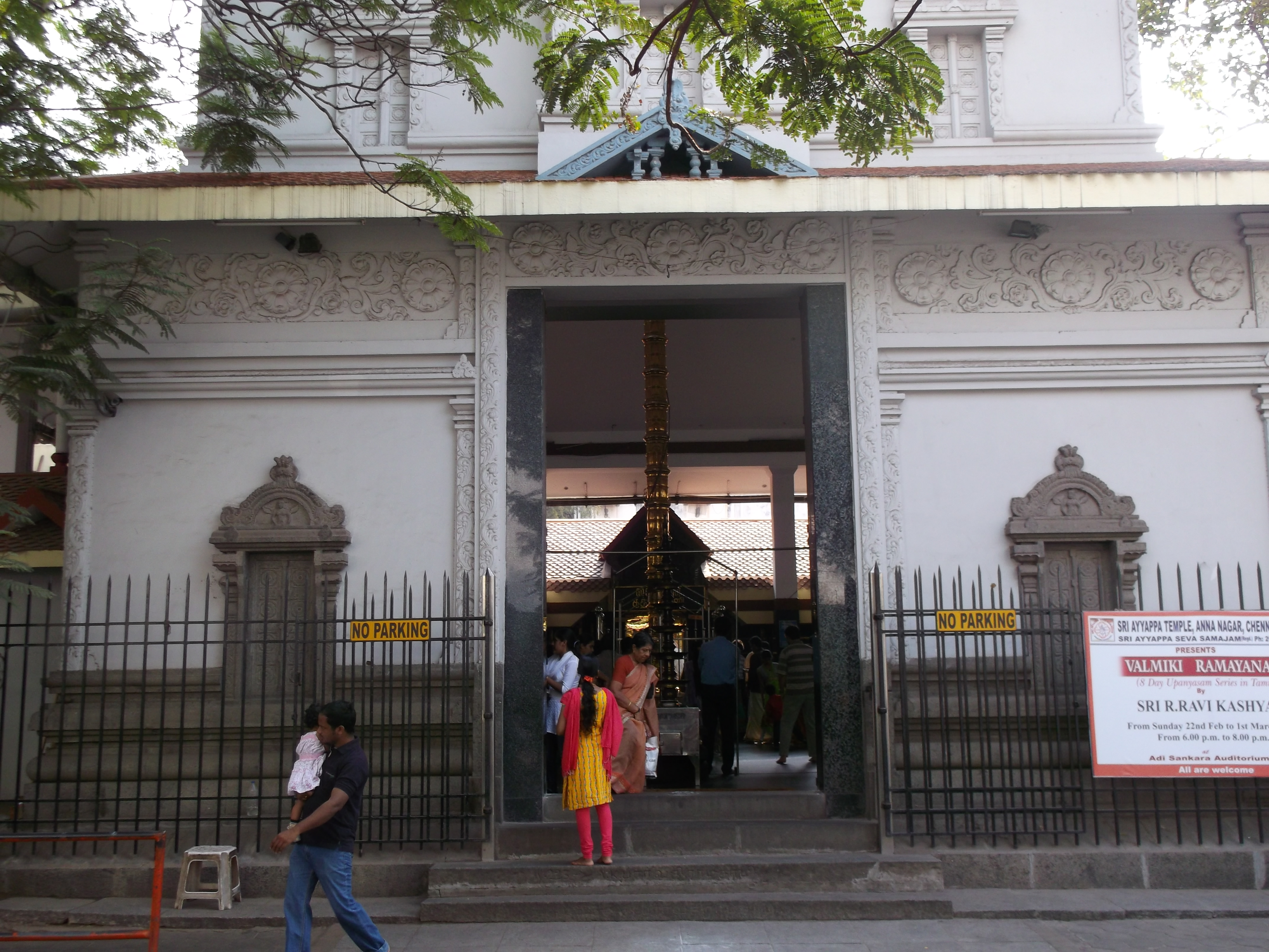 Main entrance of the Anna Nagar Ayyappan Koil, taken on 22 February 2015 at around 9:30 am.